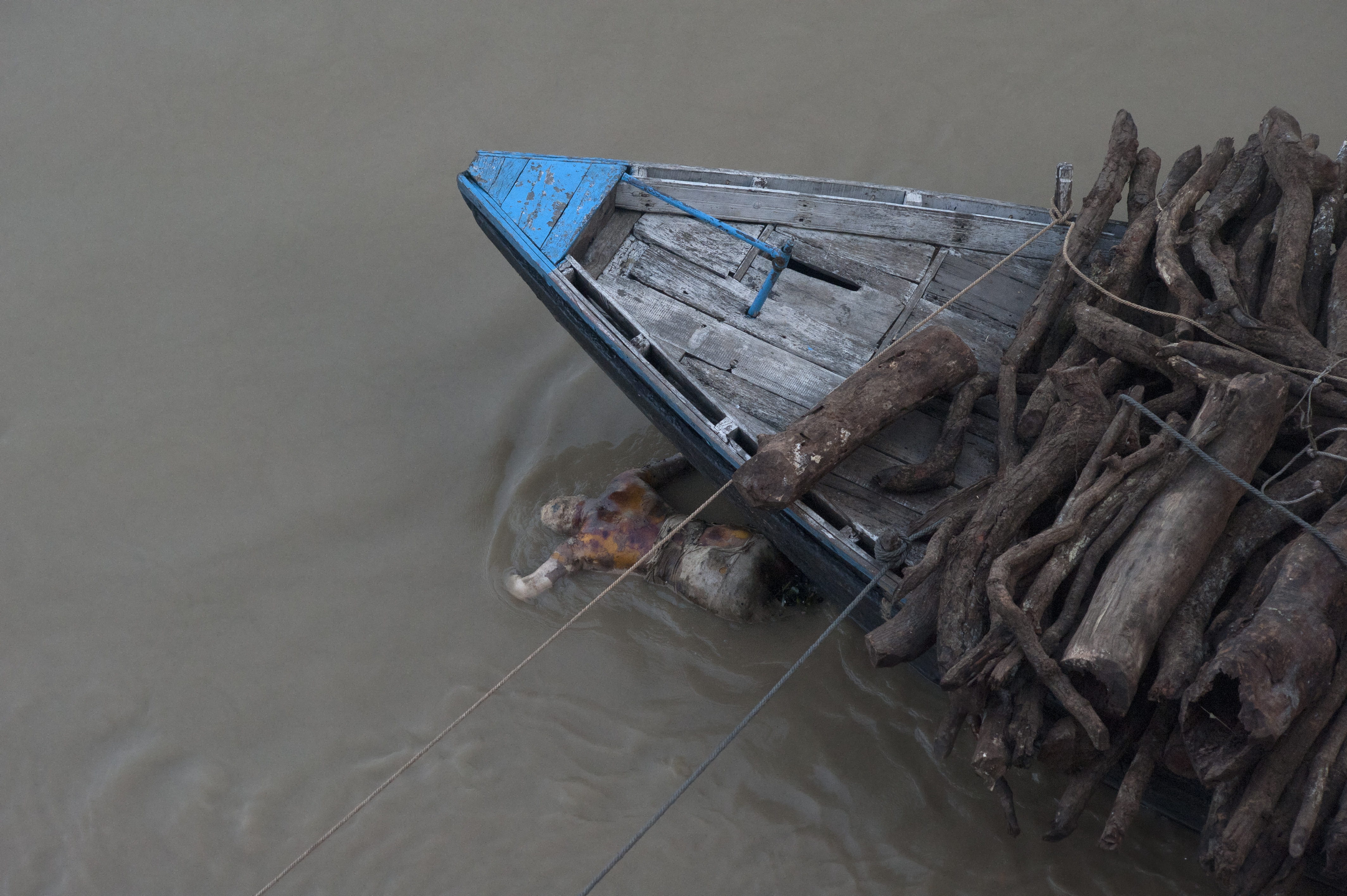 Dead body in Manikarnika Ghat, Ganges river, Varanasi, India.